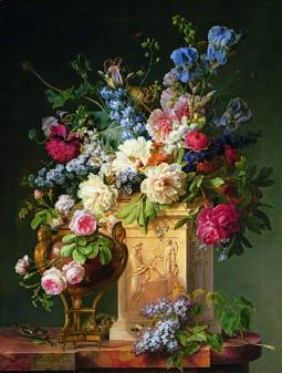 "Un piédestal d'albâtre, enrichi de bas-reliefs, sur lequel est posé une corbeille de fleurs et à côté un vase de bronze" ("Still life of an alabaster pedestal, enriched with bas-reliefs, on which is set a basket of flowers, with a bronze vase on one side") by Flemish-born painter Gerard Van Spaendonck.